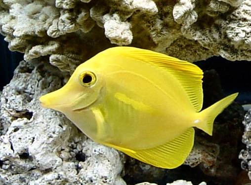 Common name: Yellow Tang Scientific name: Zebrasoma flavescens Source: Fred Hsu, February 2000.